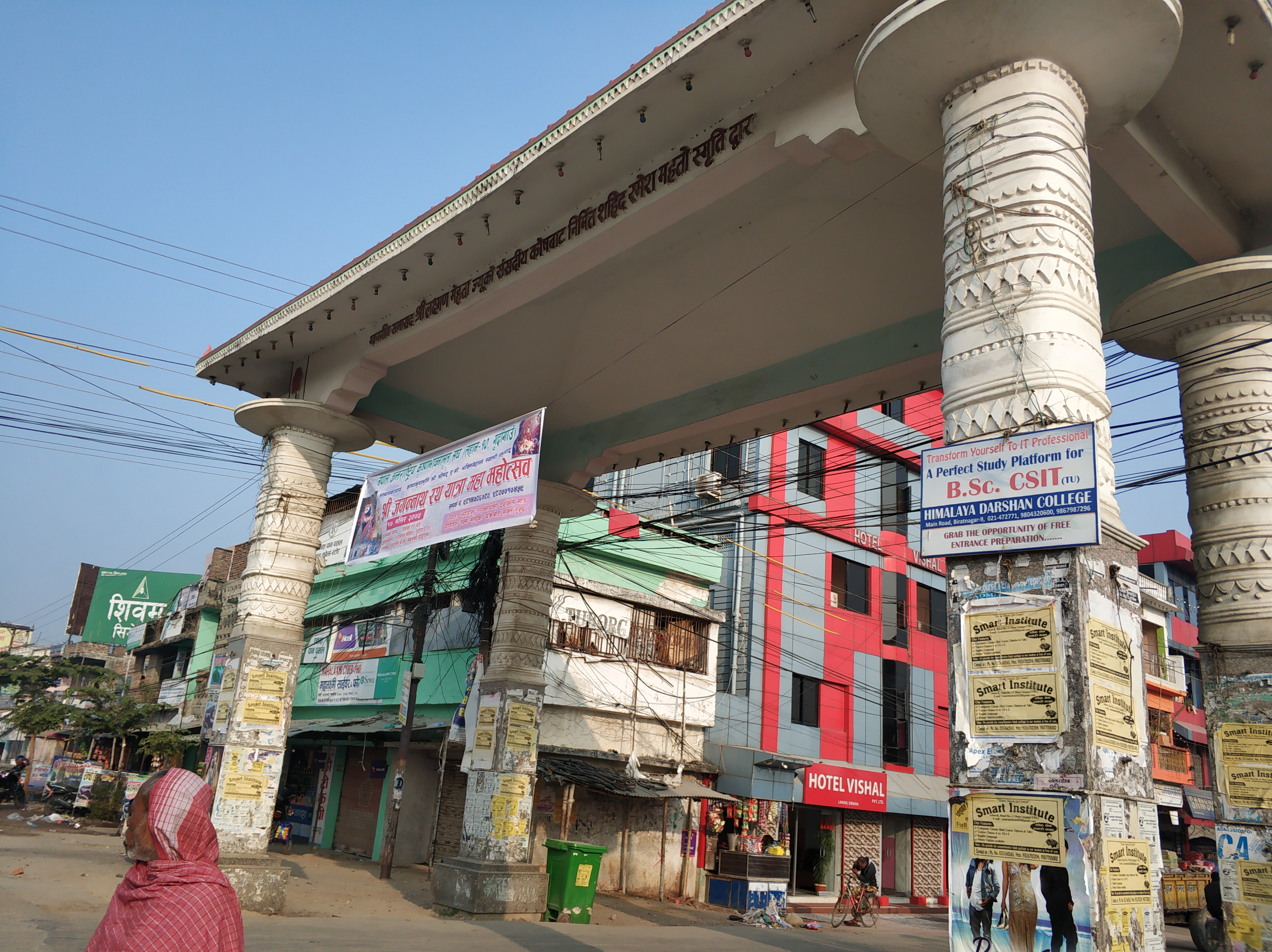 Gate near the Gol chowk of Lahan city.